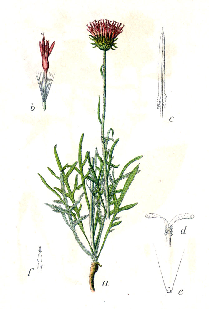 Jurinea cyanoides (L.) Rchb. Unresolved name: Serratula pollichii DC. Original Caption Pollich-Scharte, Serratula pollichii